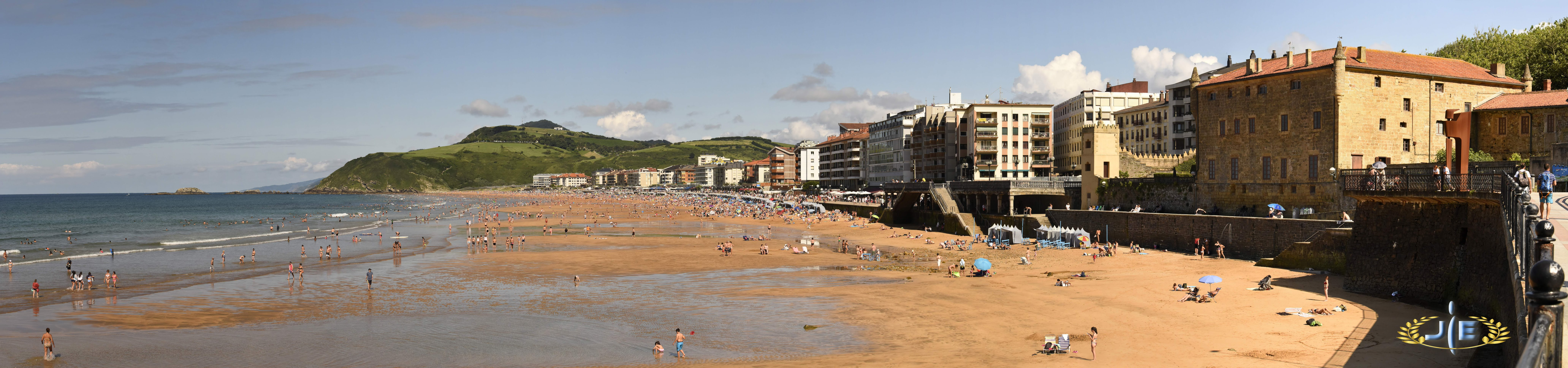 Landscape of the beach and the Village called Zarautz